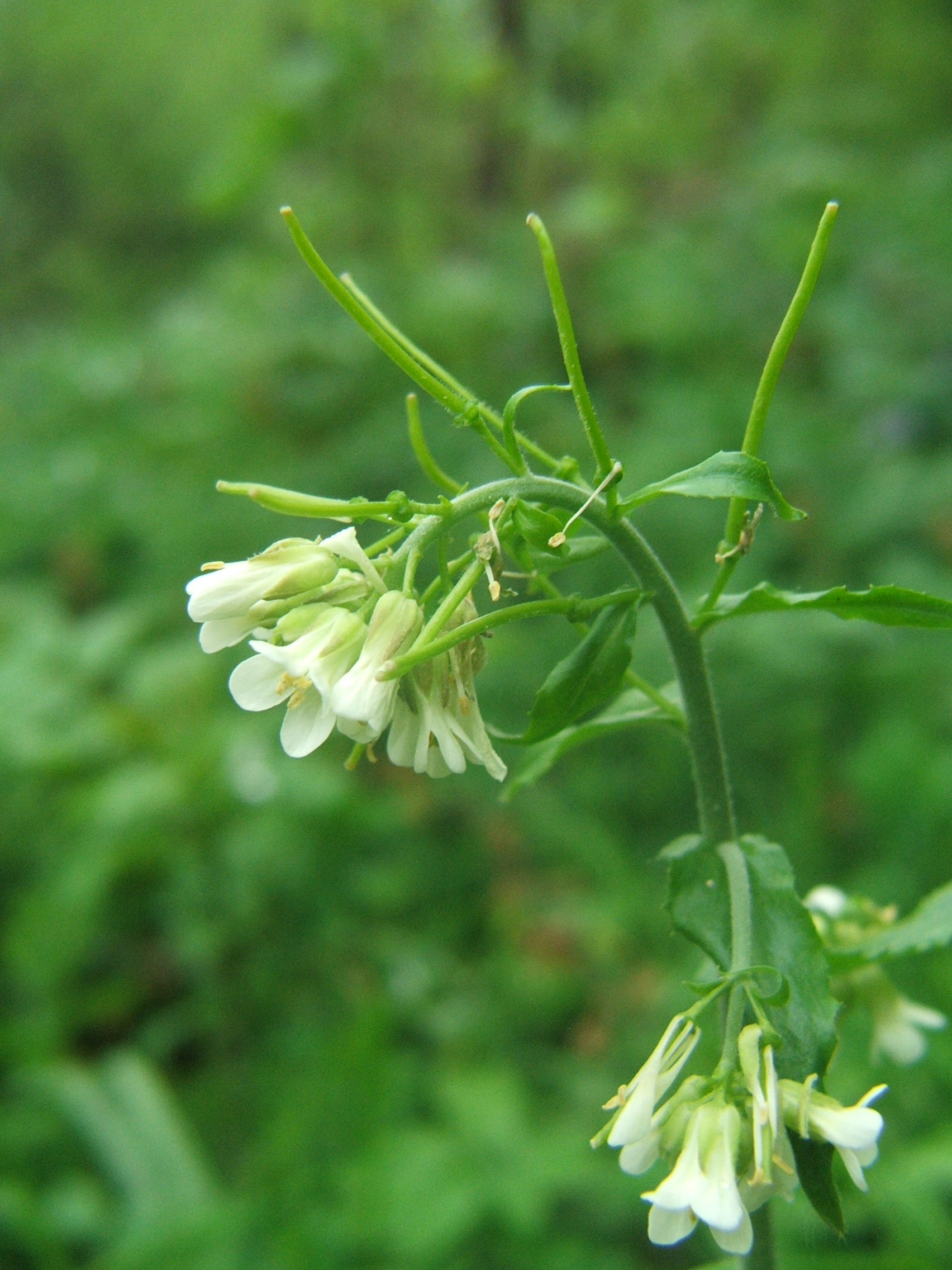 Arabis turrita